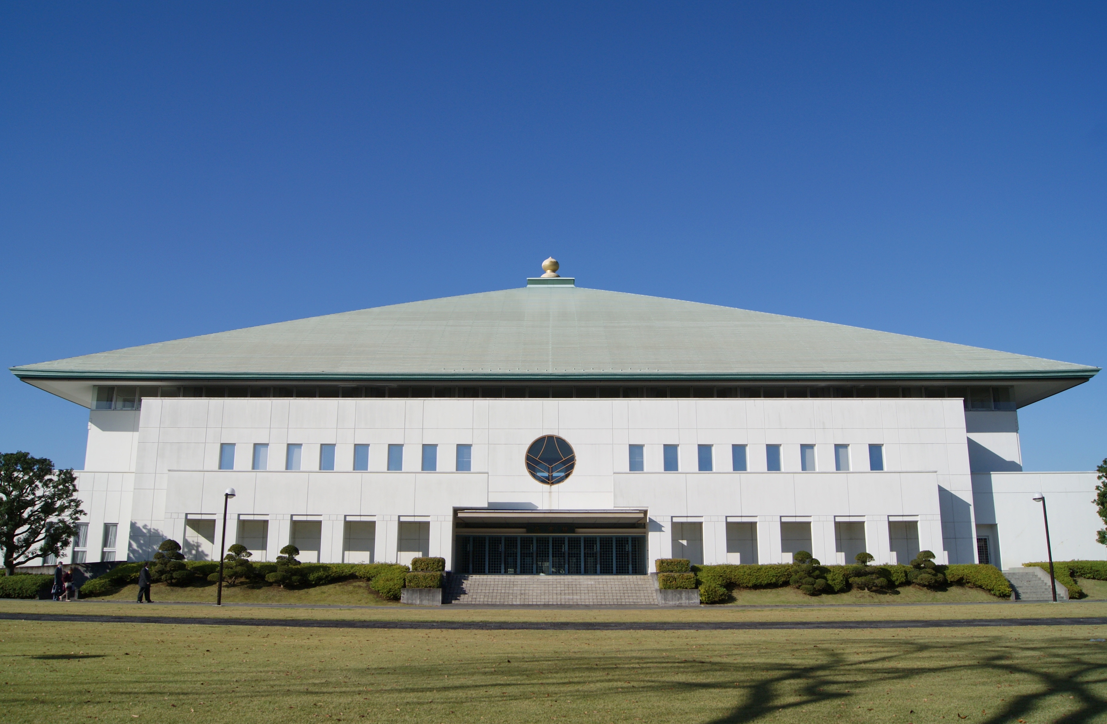 Kōfu-bō of Taiseki-ji.jpg